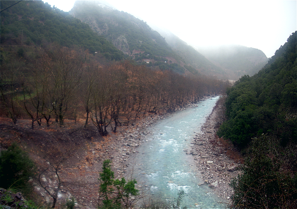 River Agrafiotis, prefecture of Evrytania, Central Greece